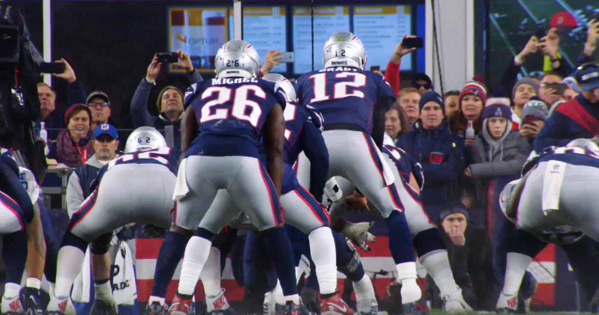 Tom Brady and Sony Michel. Image from video Titans' Crucial Goal Line Stand | Slow-Mo Monday, ~ 00:00